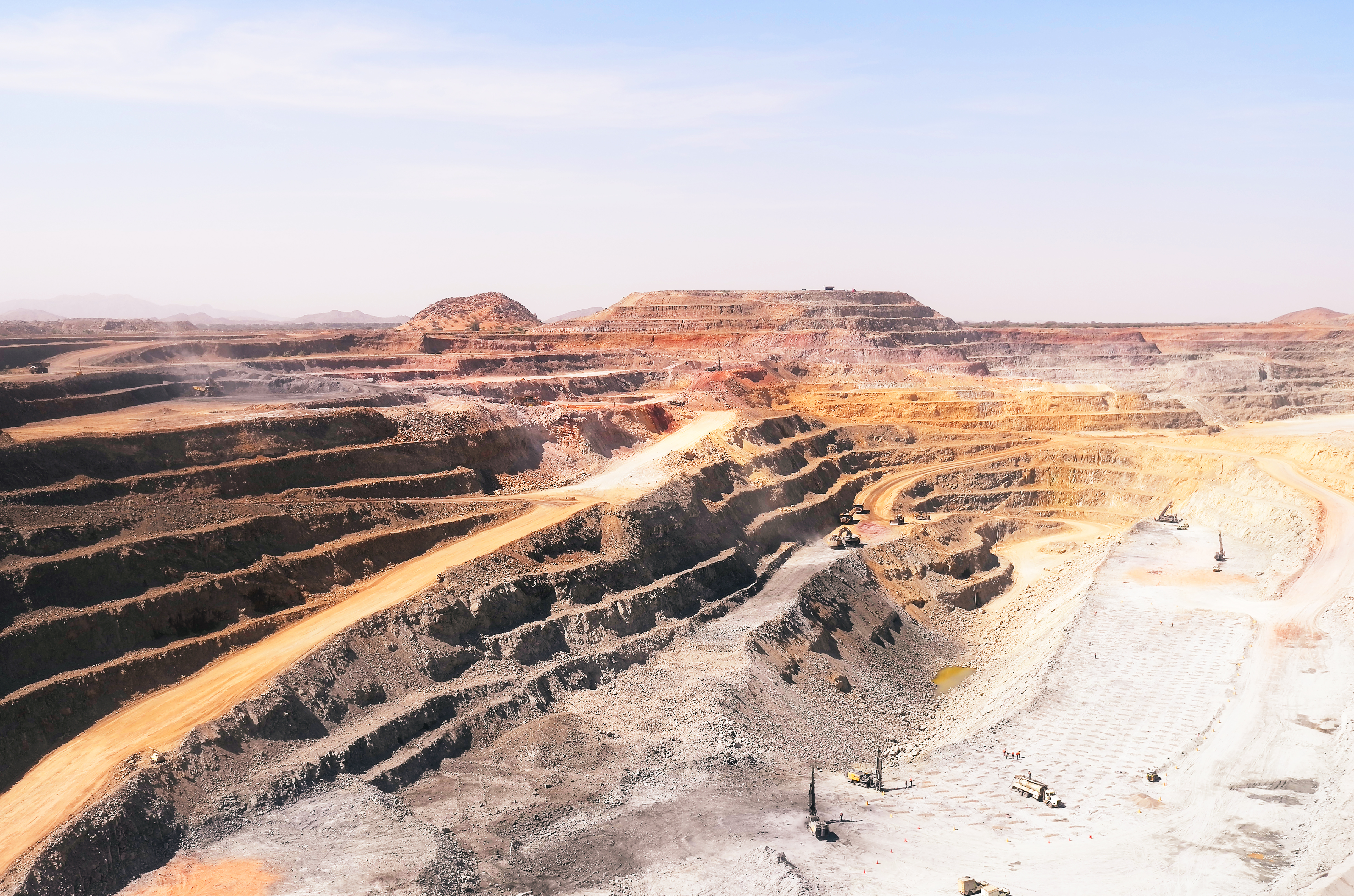 From one perspective, Eritrea is a country in desperate need of positive publicity, and has, with Bisha, found a positive story—a shining example for the future. On the flip side of the coin, Bisha is under the looking glass of a Canadian court, which is investigating human rights violations. Picture taken on assignment for Blankspot. Full story